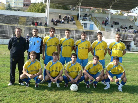 Soccer club Osogovo, Kocani